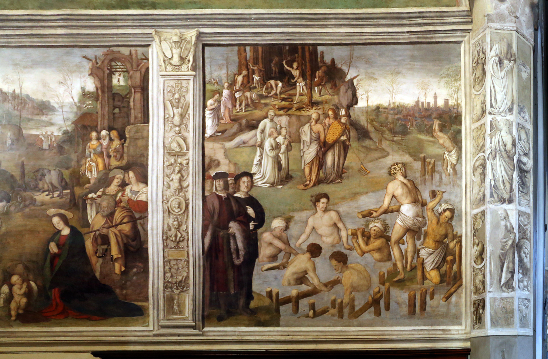 Cappella di Sant'Agostino (Lucca)